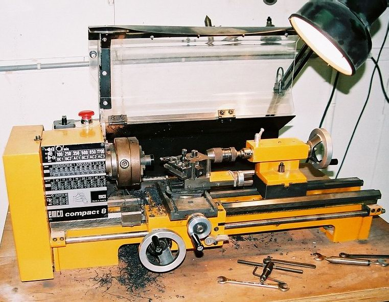 Conventional lathe. Author : Greudin, 2003. Licence